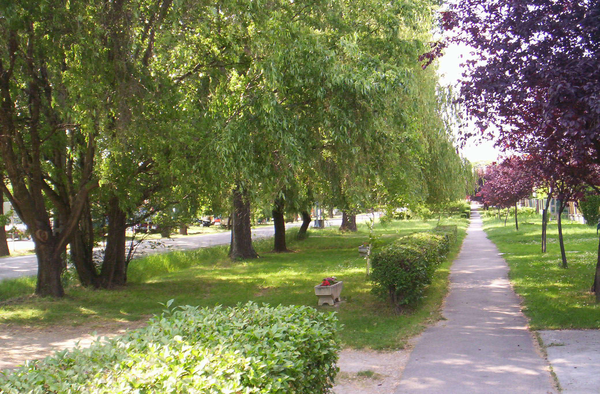 The main street of Ecser, on the pathway.